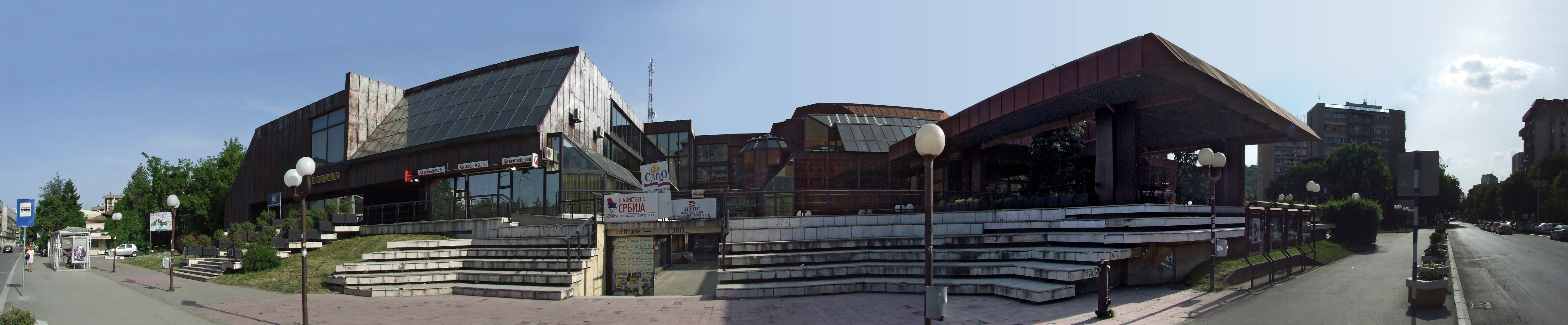 Panoramic photo of Centar za kulturu Smederevo (Cultural centre Smederevo).